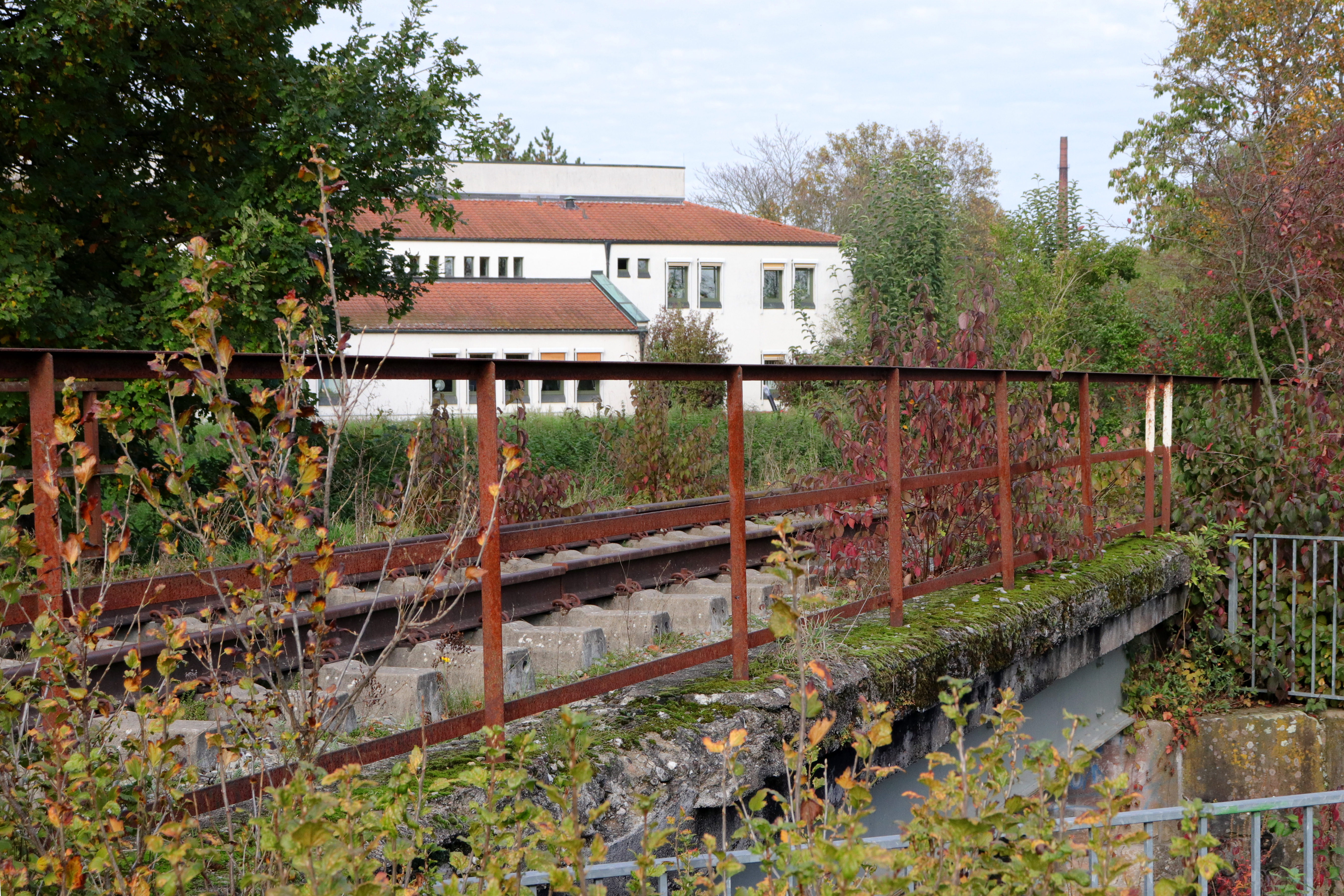 Großostheim, bridge of former Bachgau railway crossing the Welzbach with remaining tracks